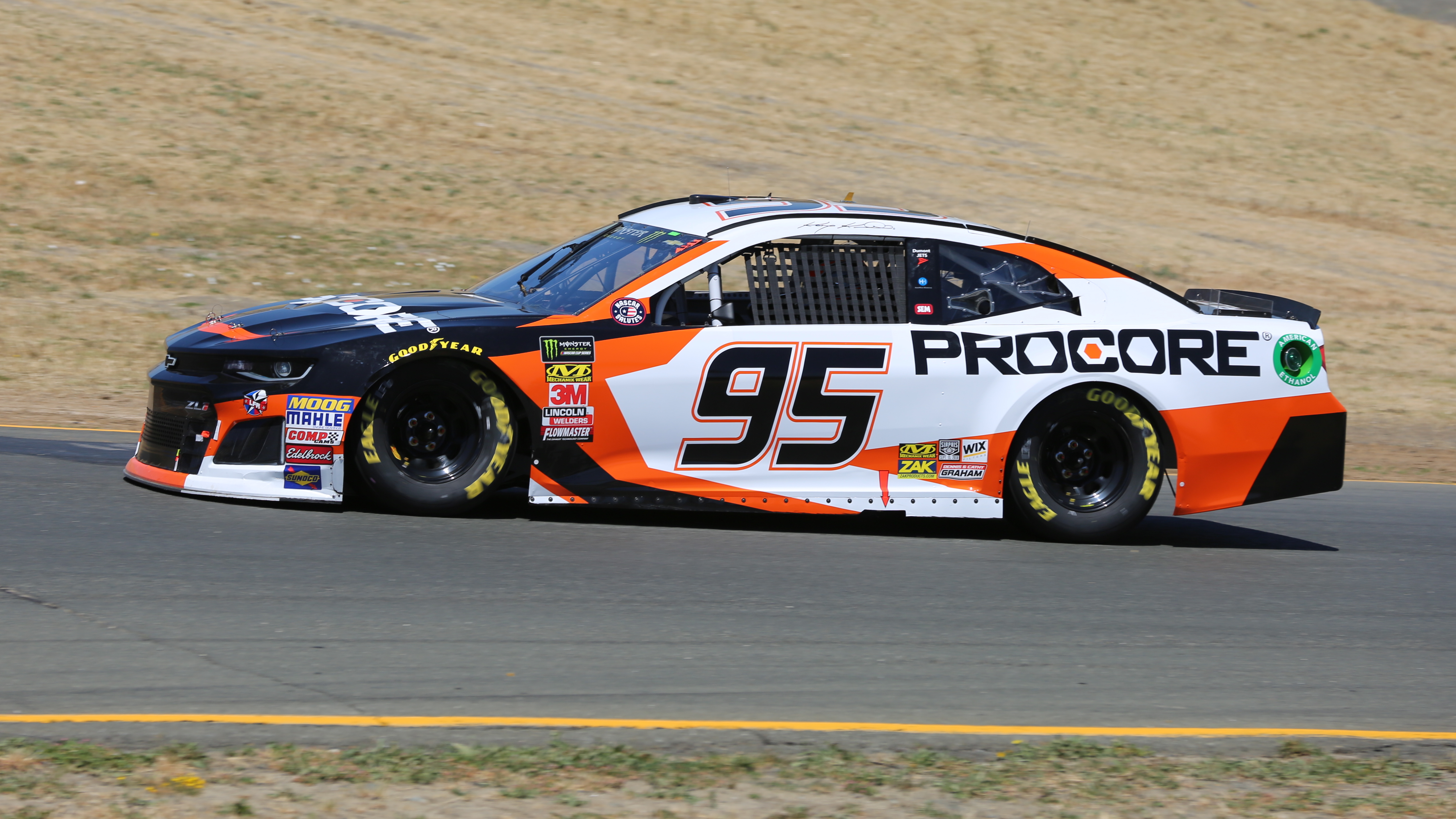 Kasey Kahne's No. 95 Procore Chevrolet at Sonoma Raceway in 2018